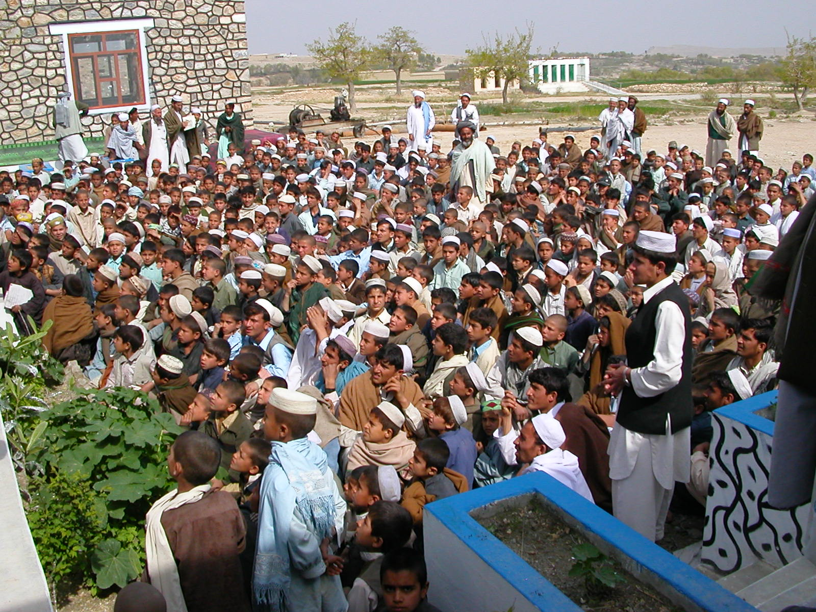 Hundreds of students gather at Agam High School for its official reopening ceremony March 25 in Afghanistan's Nangarhar province. The 2nd Battalion, 3rd Marine Regiment, funded the school's rehabilitation with $25,000 in Commander's Emergency Response Program funds. Photo by Capt. Dan Huvane, USMC